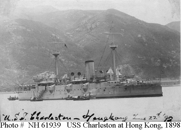 Protected cruiser USS Charleston (C-2) - US Navy